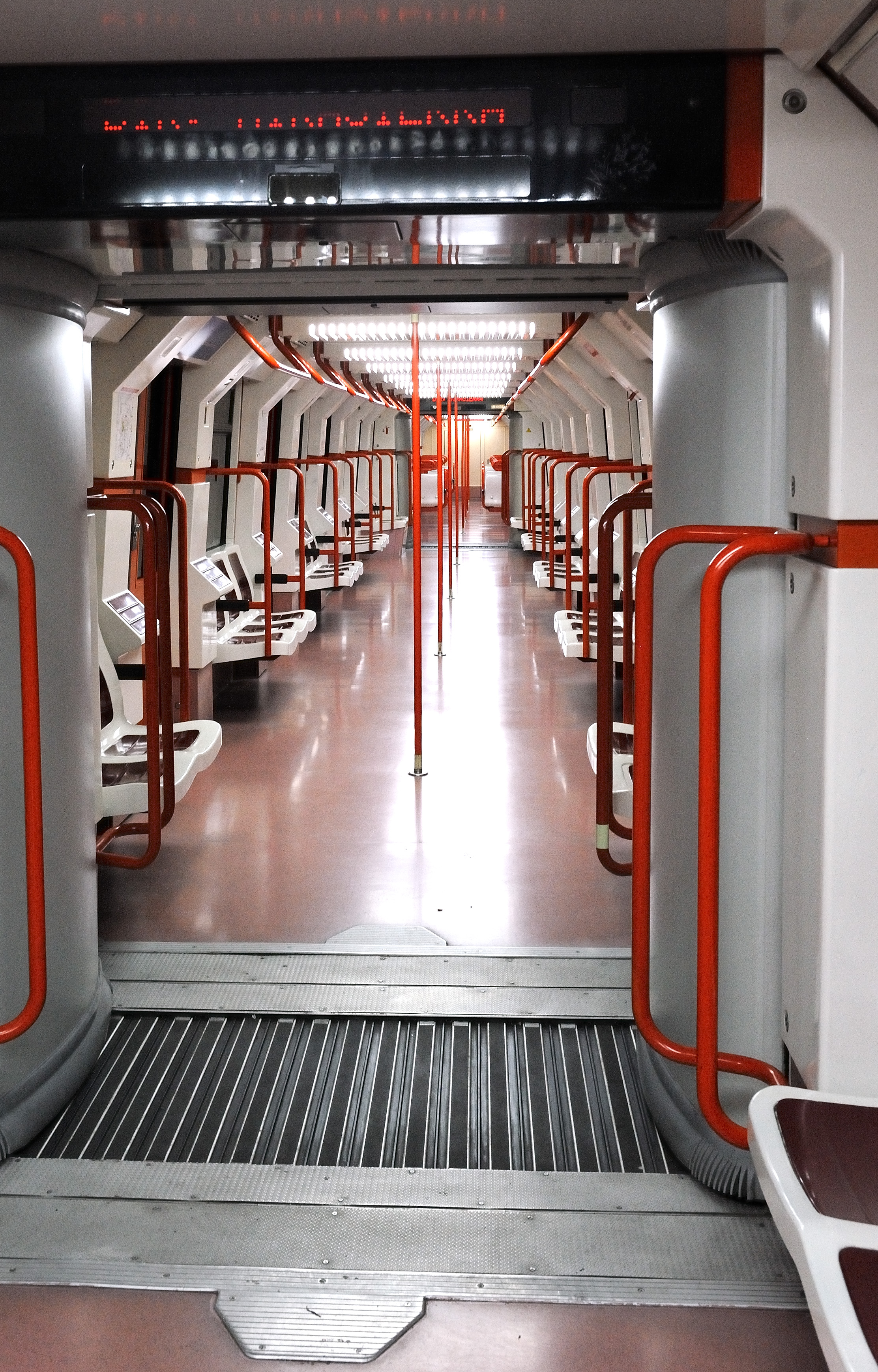 Interior of an early morning #8 subway bound for the airport. Many metro interiors in both Madrid and Paris are as wide open as this, allowing riders to gaze and walk easily from one end of the train to the other.